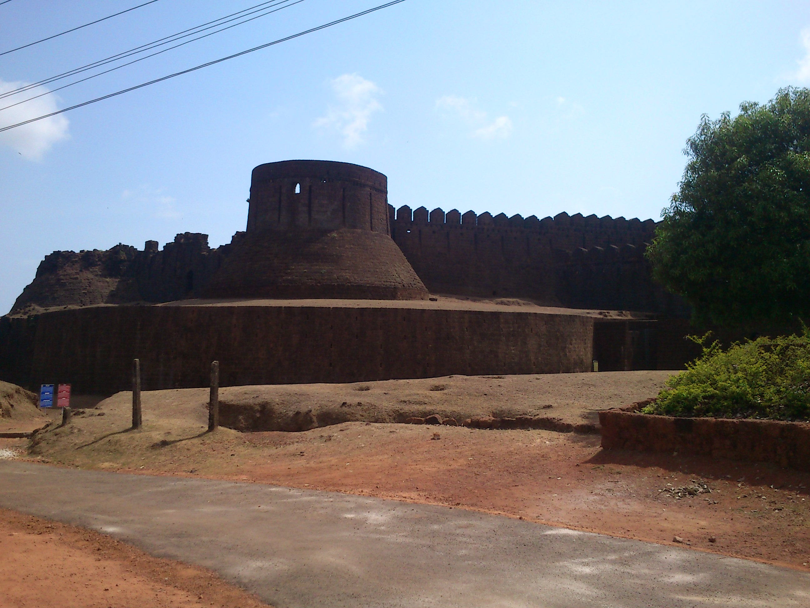 Outer view of fort